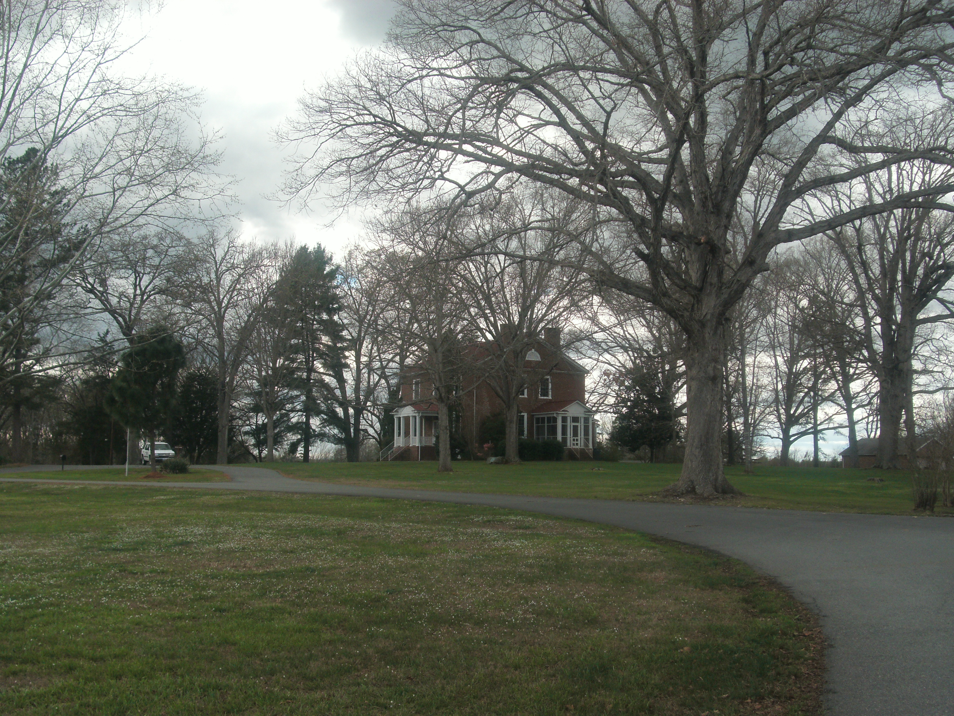 Trenton